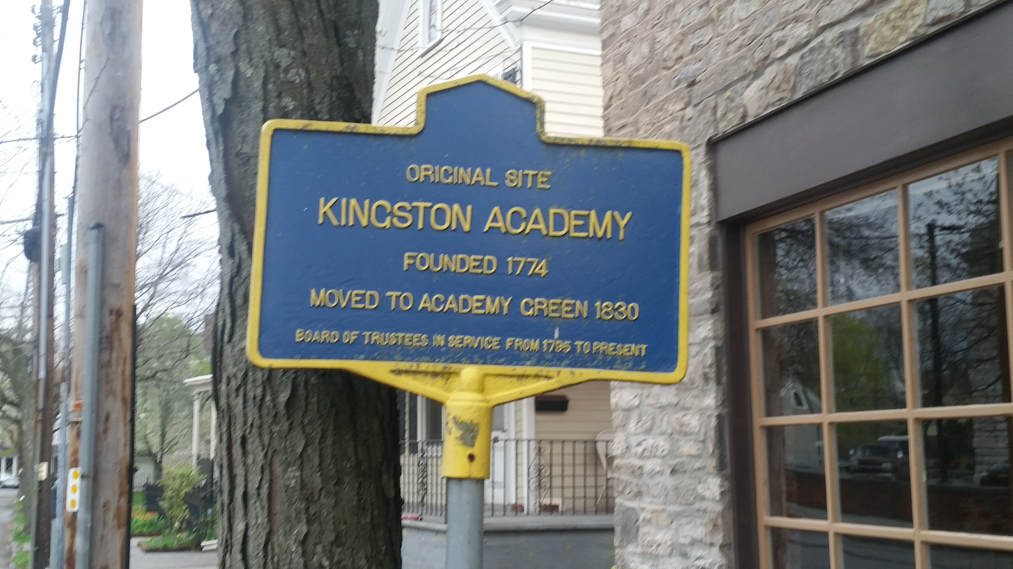 Marker for the site of the original Kingston Academy, before it moved in 1830. It seems now, in 2017, to have disbanded.